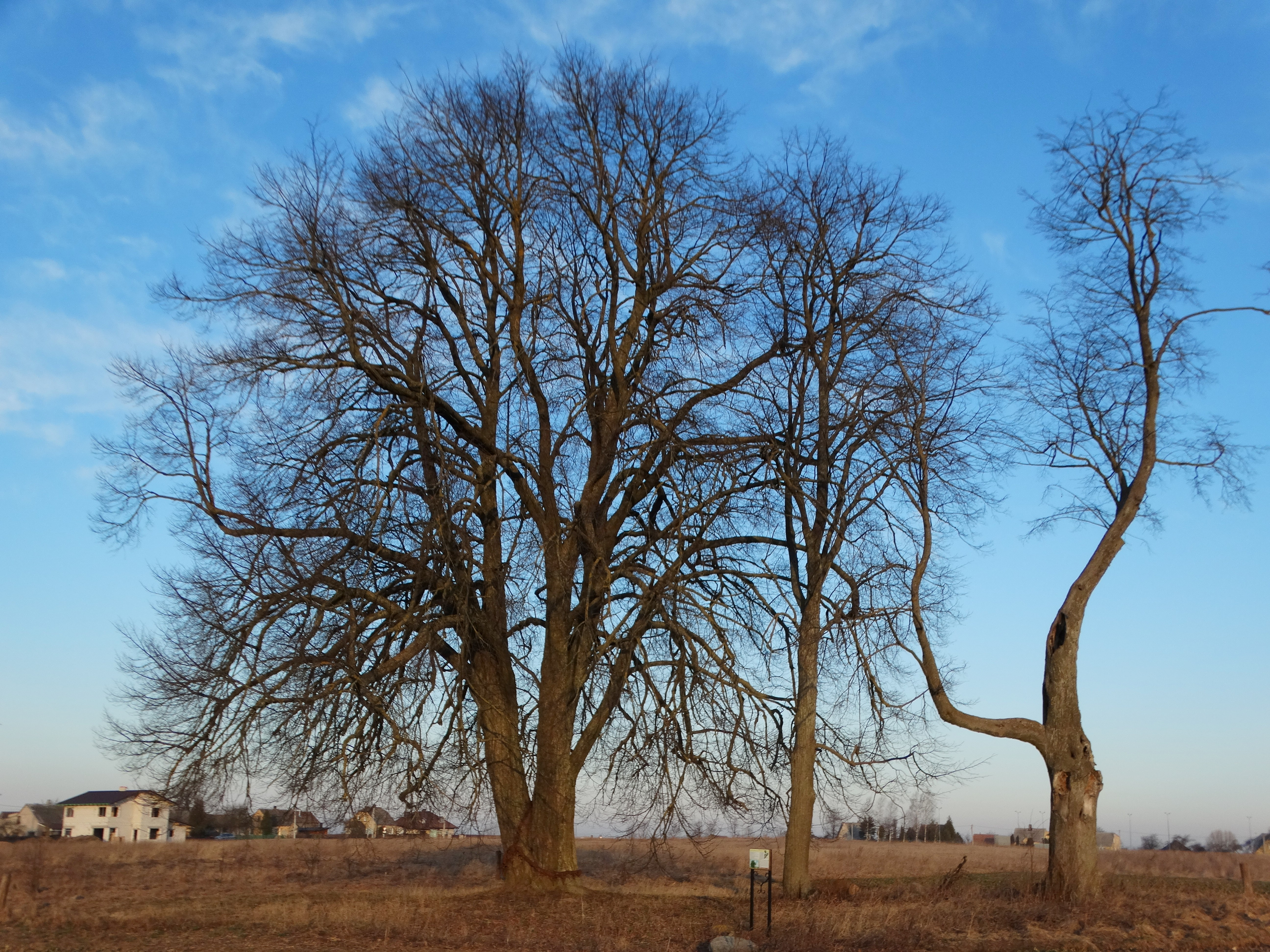 Linden trees, Lieporiai, Šiauliai district, Lithuania